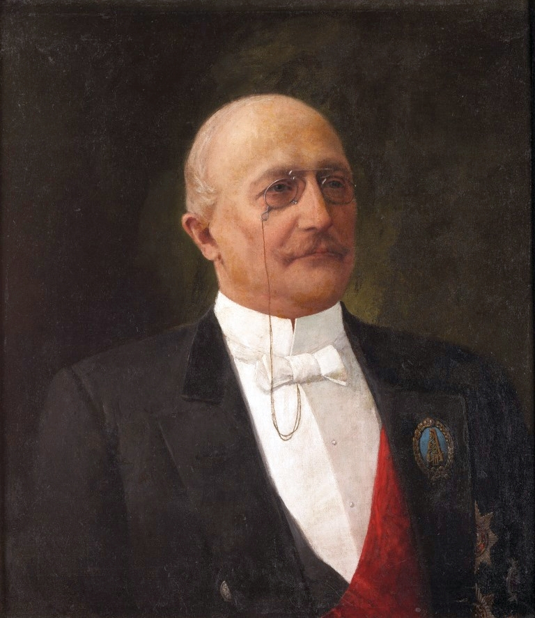 Portrait of Minister of Ways of Communication and member of State Council, Adolpf Yakovlevich von Gubbenet